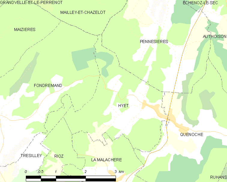 Map of French municipality